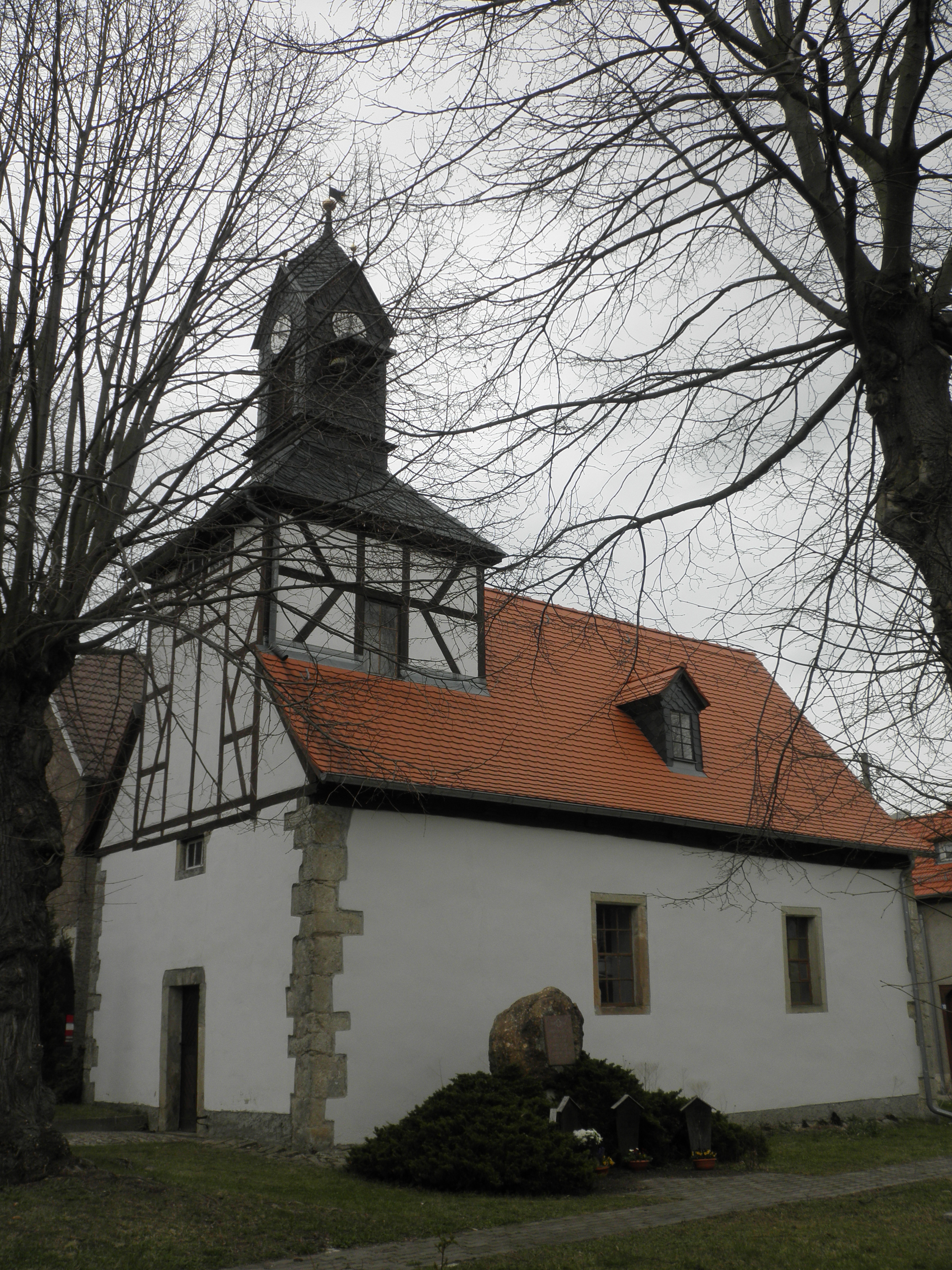 Church in Schoppendorf (Bad Berka) in Thuringia